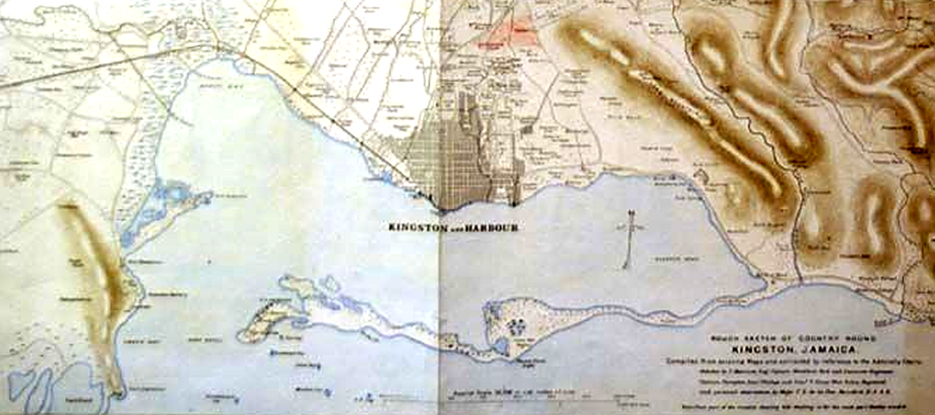 An extract, showing Kingston Harbour, taken from a lithographed map of Kingston and environs published by Edward Stanford for the Intelligence Division of the War Office, UK in June 1891. It was based on earlier maps and Admiralty charts, updated with the observations by five army officers.